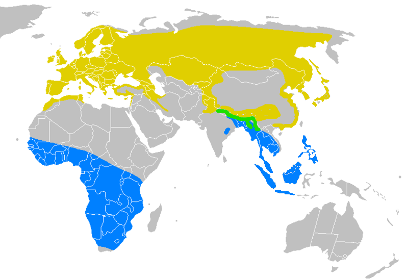 Delichon species map. Green: resident year-round Delichon nipalense Yellow: breeding range Delichon dasypus + Delichon urbicum Blue: non-breeding range Delichon dasypus + Delichon urbicum